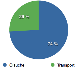 Accumulated flight hours of the German Navy Do228-Fleet from its start in 1991 up to July 15, 2012.